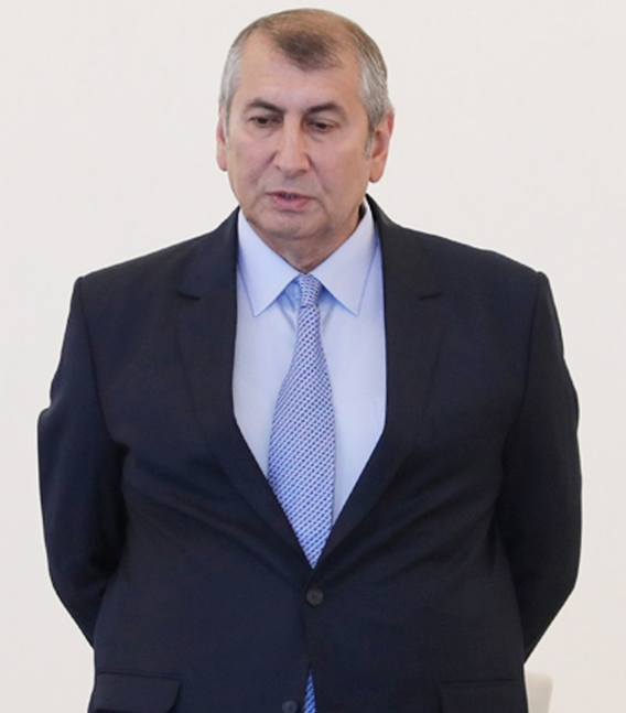 Faig Garayev. Ilham Aliyev received Azerbaijani national women`s volleyball team